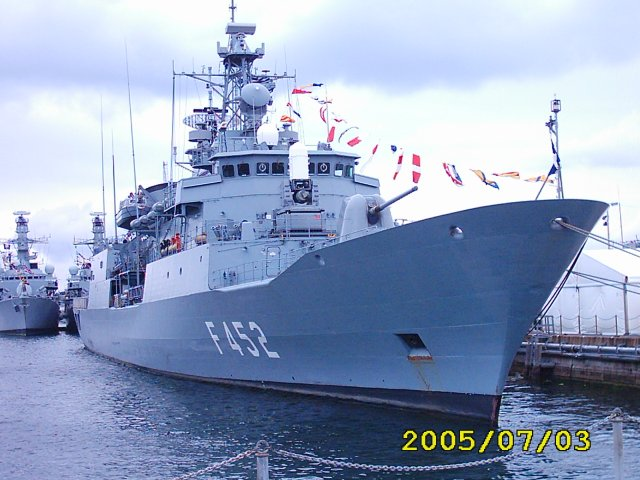 HN frigate HS Hydra, F-452 at HMNB Portsmouth during 2005 International Festival of the Sea Uploaded to English Wikipedia on November 7 2005 with the description "Taken by Dave Taskis at HMNB Portsmouth at the July 2005 International Festival of the Sea."